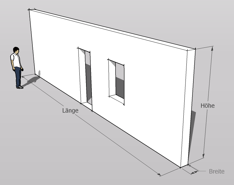 Simple sketch of a wall